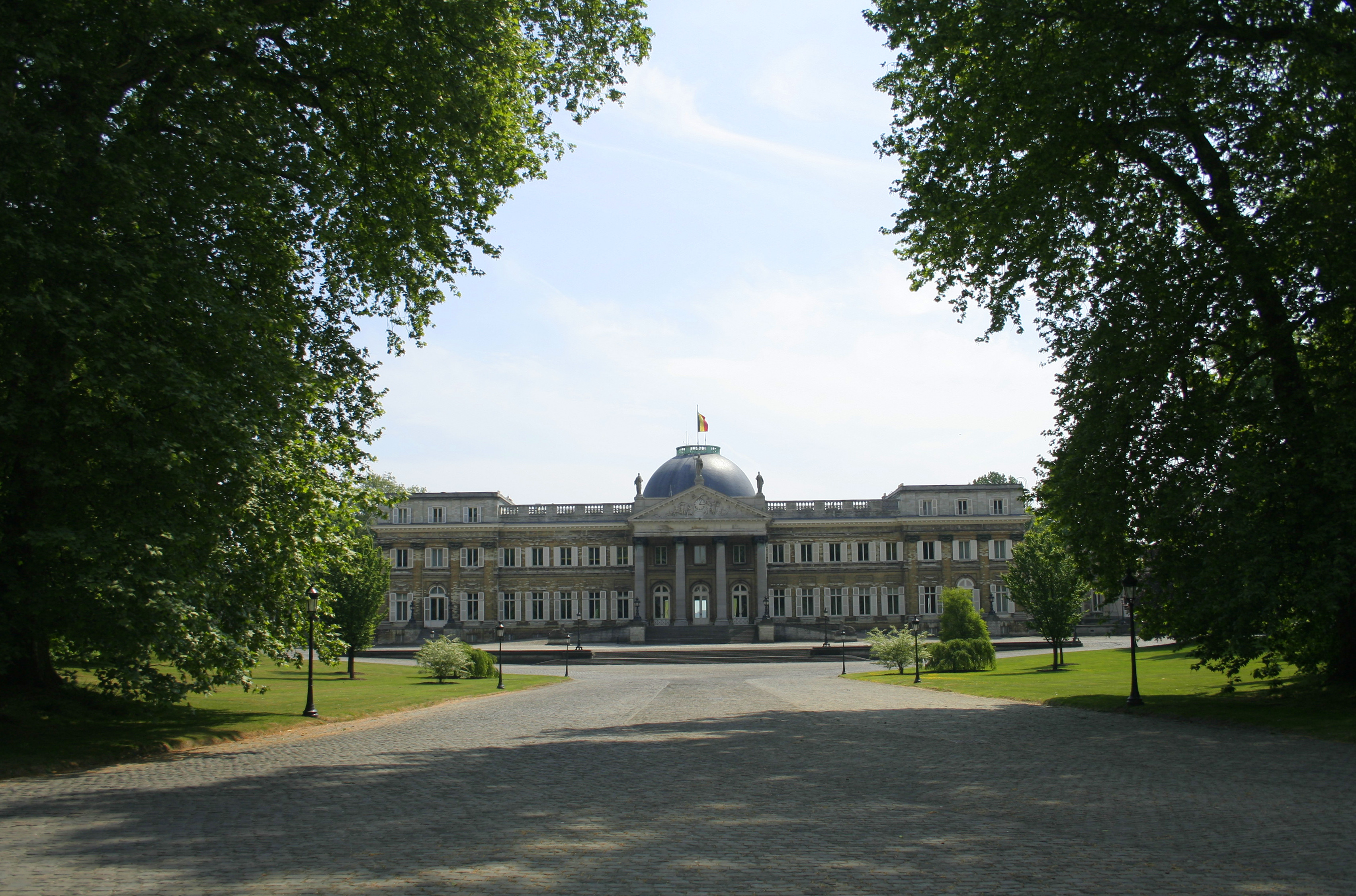 Laken (Belgium), the Royal Castle (architect:Charles de Wailly - 1782-1784).